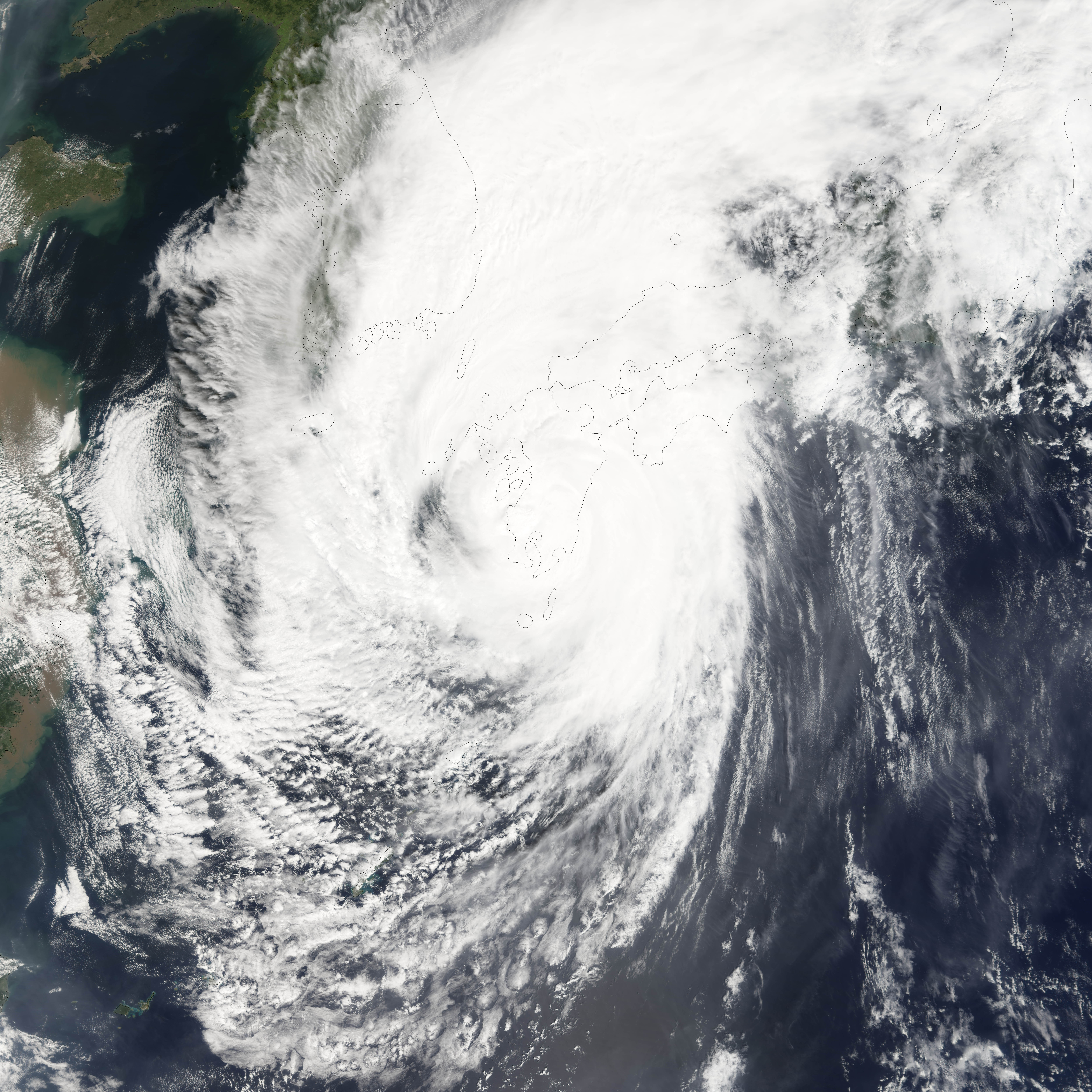 Typhoon Nabi was a Category 2 typhoon in the western Pacific when the Moderate Resolution Imaging Spectroradiometer (MODIS) on NASA’s Terra satellite captured this image on September 6, 2005 at 11:05 a.m. Tokyo time. It had sustained winds of around 160 kilometers an hour (100 miles per hour), and it was heading north across the southern end of Japan. The eye of the storm is roughly centered in the image, and the thick storm clouds completely hide the island of Kyushu. To the northeast of the eye, the smaller island of Shikoku and the largest Japanese island, Honshu, are also under the clouds. These clouds brought a deluge to the southern islands and caused dangerous landslides in the region’s mountainous terrain. The landslides killed several people on Kyushu. As high waves pounded the coast, as much as 51 inches of rain may have fallen in 24 hours as the storm moved slowly northward into the Sea of Japan. The Japanese government had ordered evacuations for more than 100,000 people in the southern islands, according to reports from BBC News. Flights, road traffic, and ferry services were disrupted, and hundreds of thousands of people and businesses lost power.